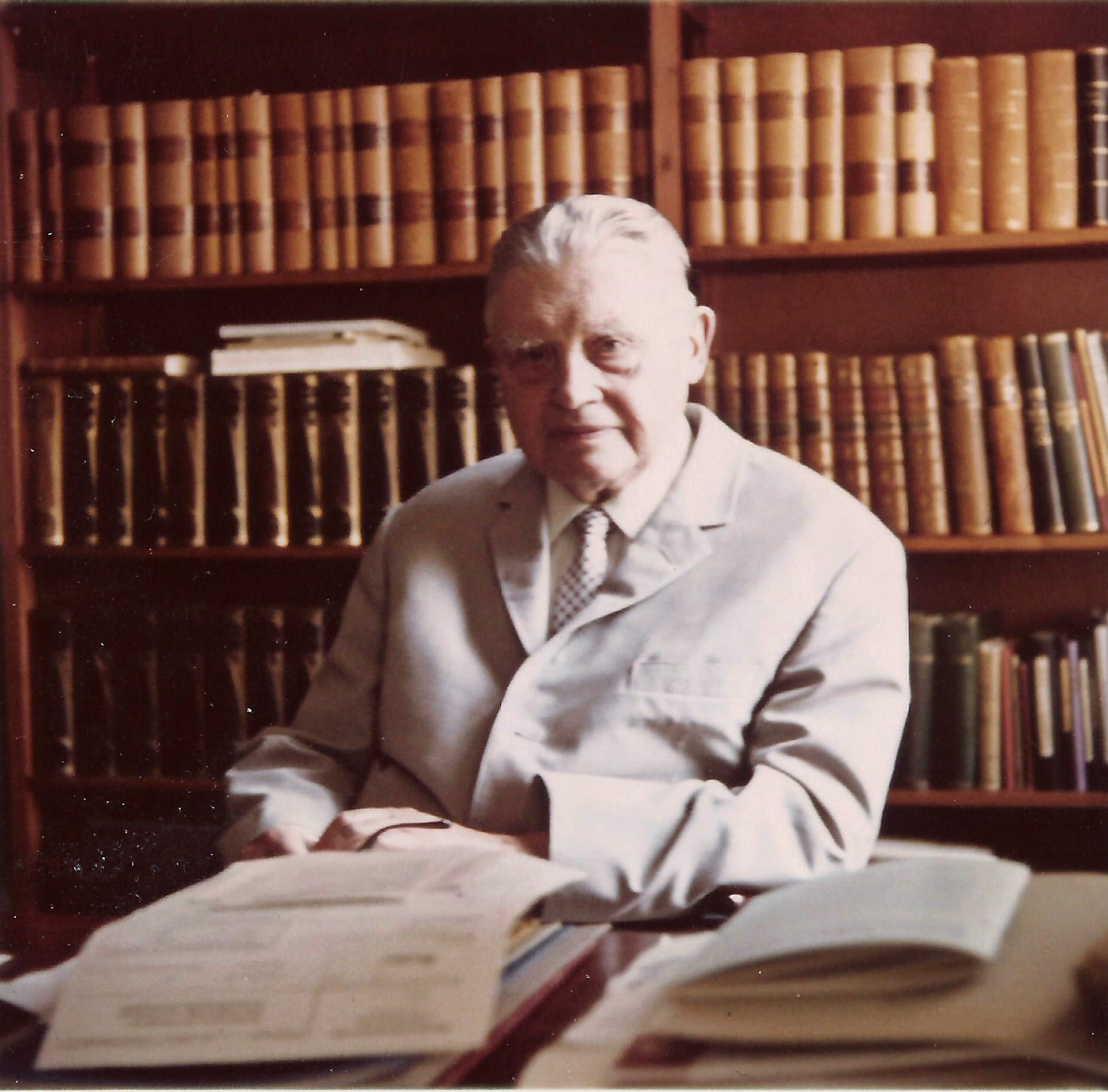 Portrait of Professor Emil Ritter von Skramlik at his home in Berlin, Germany, 1967